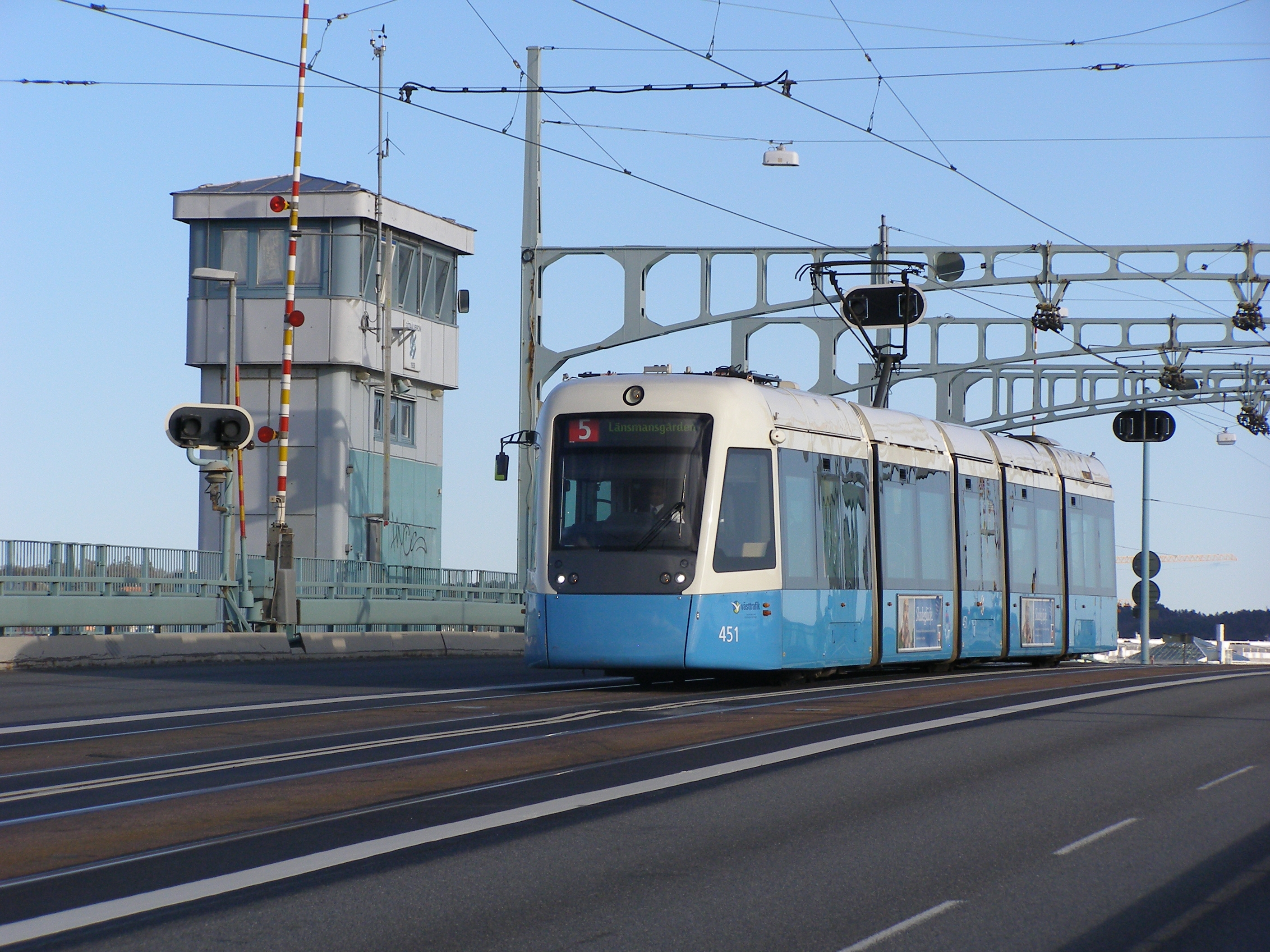 Gothenburg - Göta älvbron - tram #451 on line No. 5